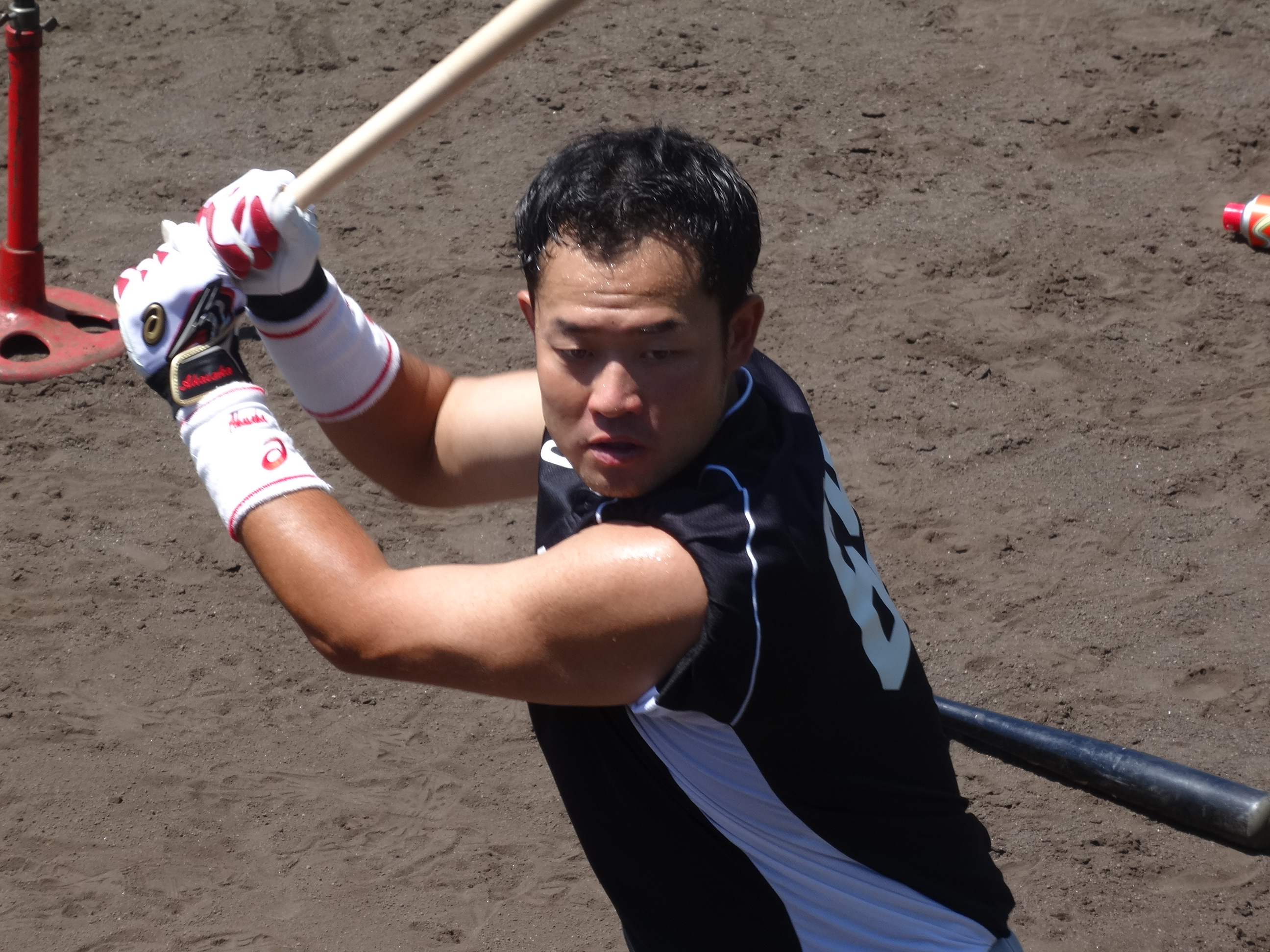 Kazuyuki Akasaka, outfielder of the Chunichi Dragons, at Hanshin Naruohama Baseball Ground